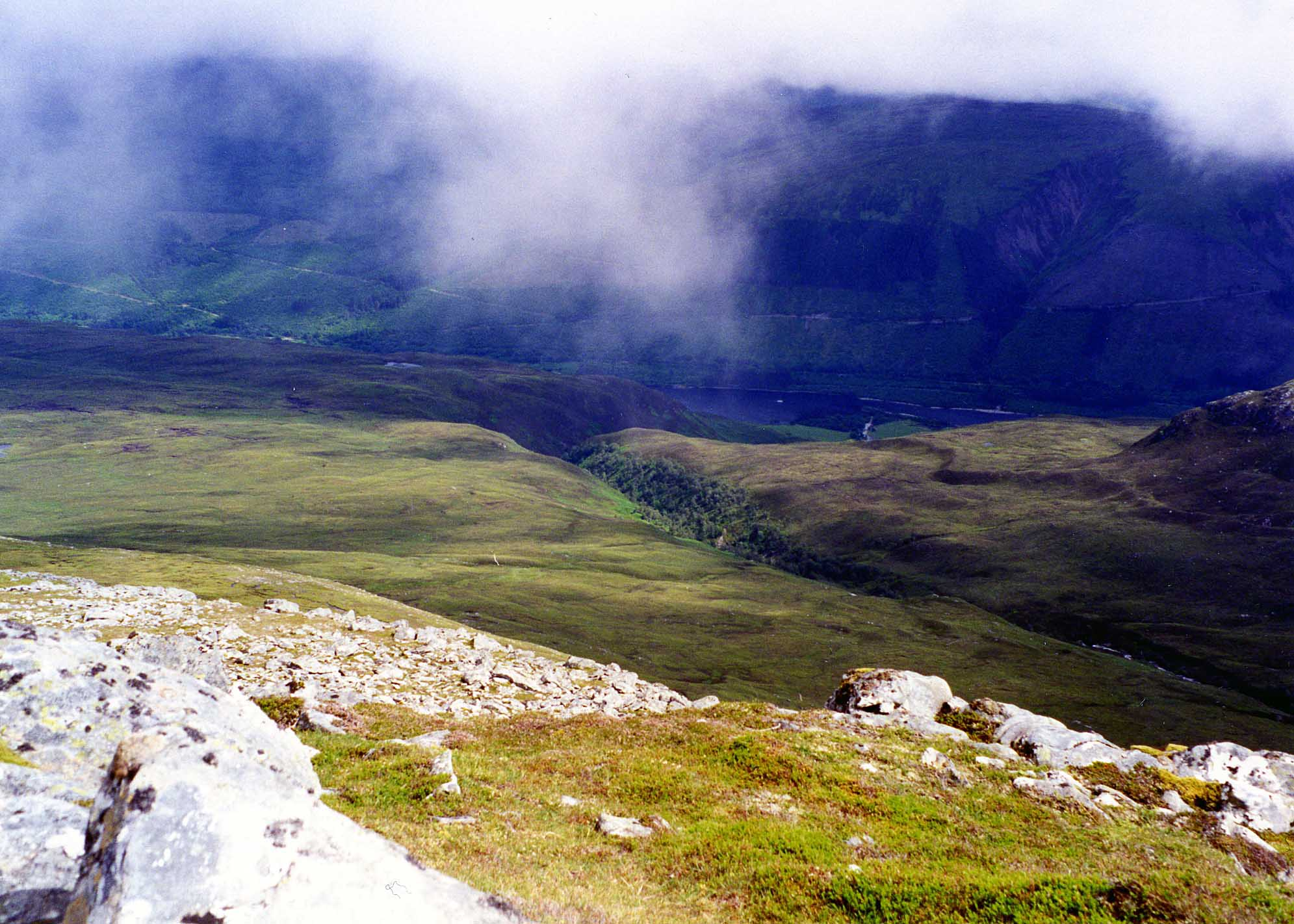 Personal picture taken by Mick Knapton